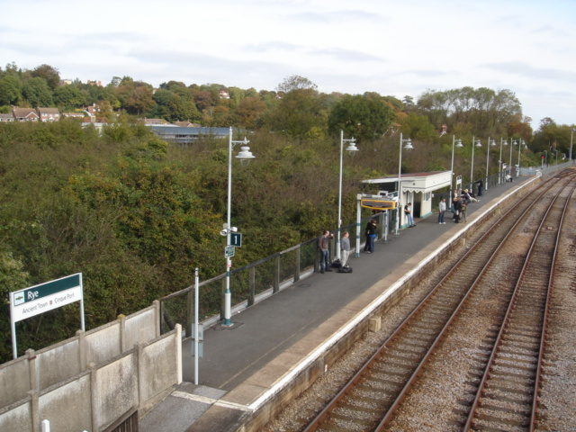 View of Ashford-bound platform at Rye railway station, from the footbridge. Photographed on en:30 September en:2007.